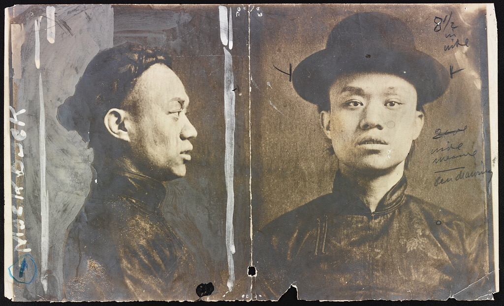 Photograph Police Mugshot